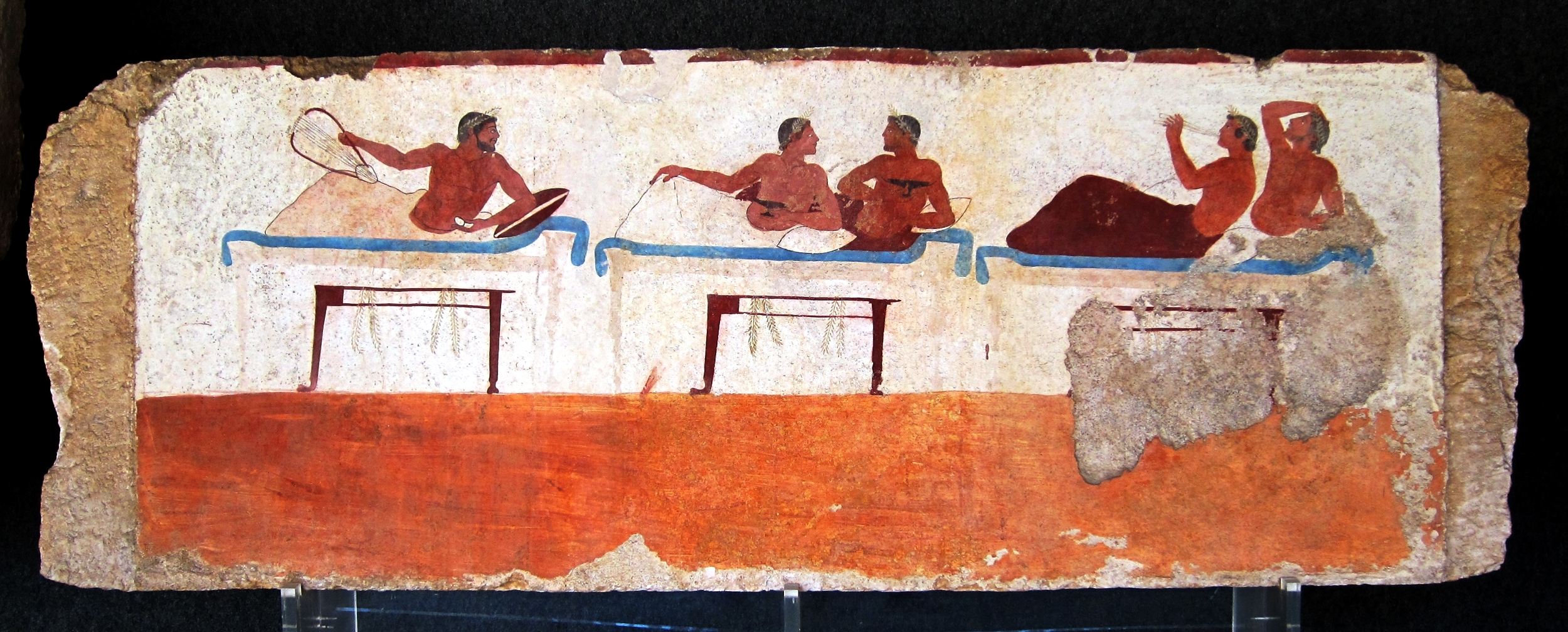 South wall of the tomb of the diver in Paestum (470-480 BC).